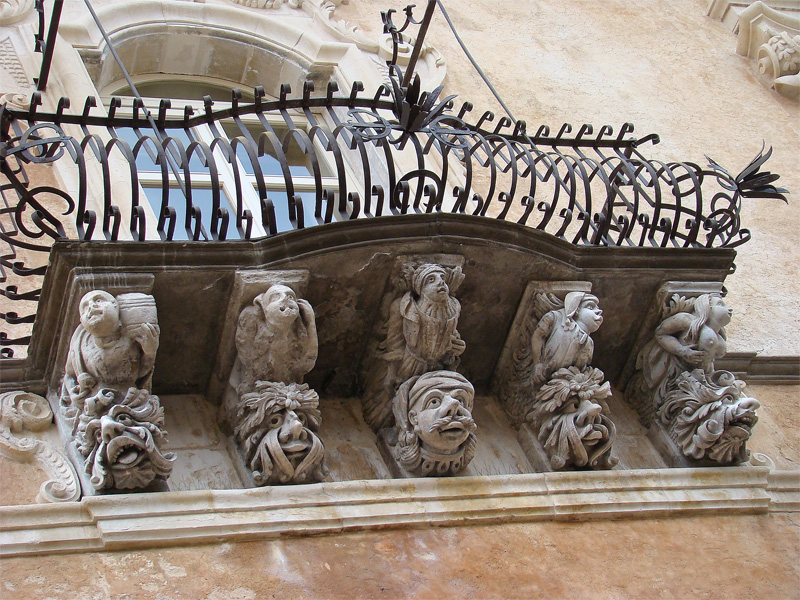 Ragusa Ibla, Sicily, Italy. Balcony of the Palazzo Cosentini.